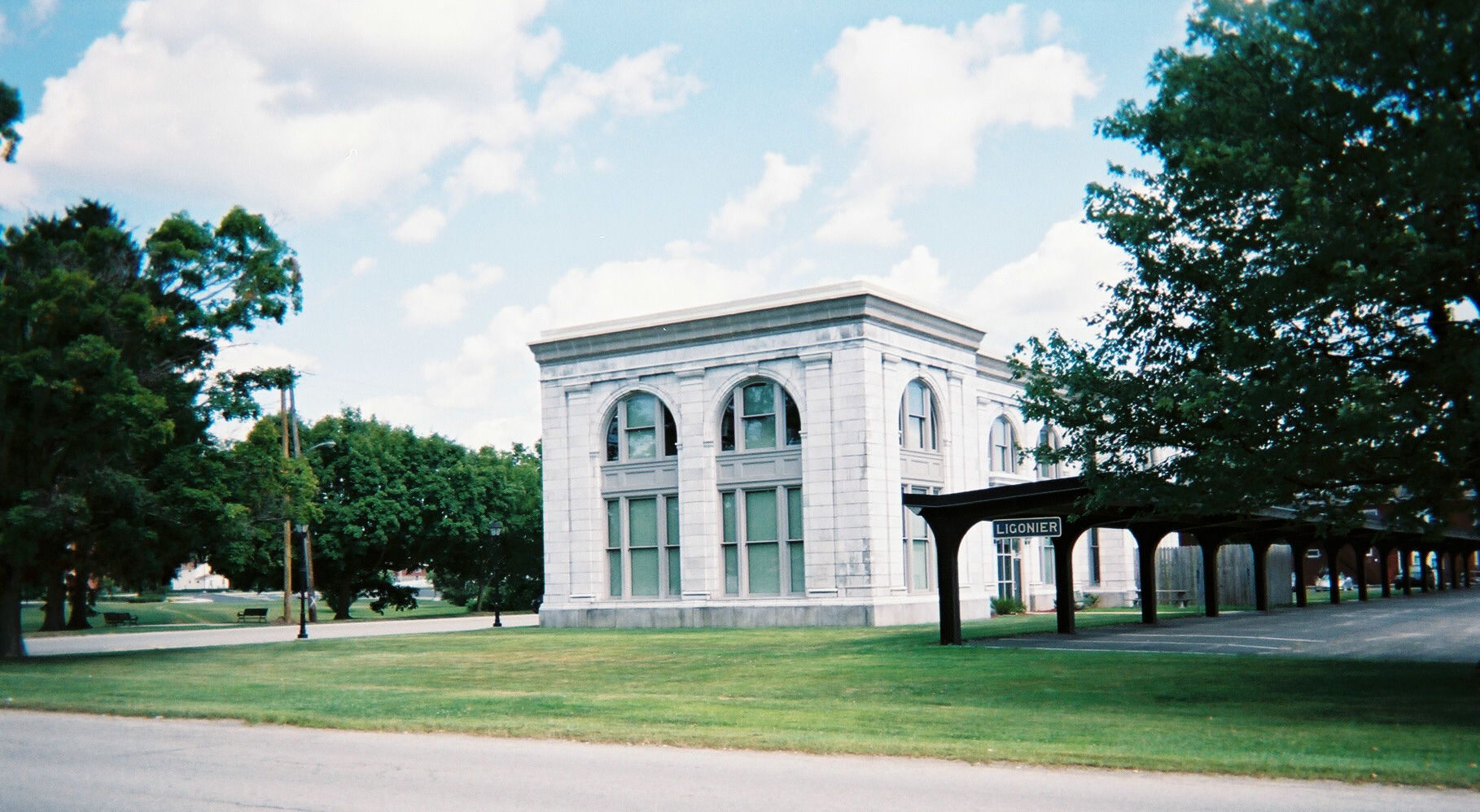 Former railroad station and company headquarters of the Ligonier Valley Railroad at 339 West Main Street, Ligonier, Pennsylvania. Photo taken from South Walnut Street, looking at the west side and south side (rear) of the structure. The building is current used as offices of the Ligonier Valley School District.